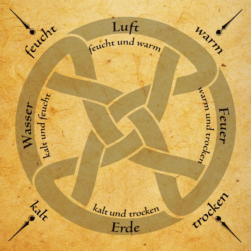 Depiction of the classical four elements and their attributes